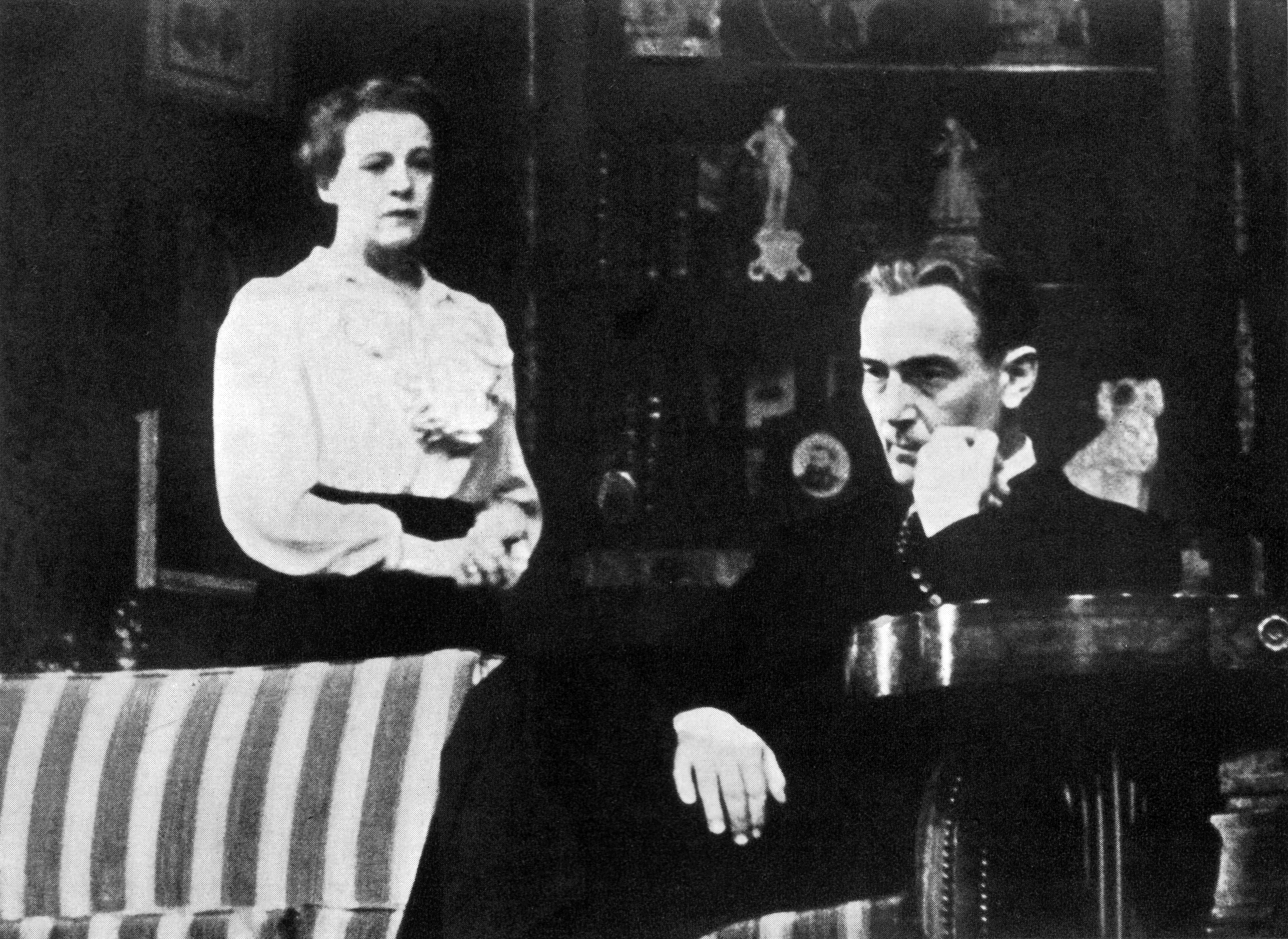 Promotional photograph for the original Broadway production of Watch on the Rhine Caption reads as follows: Mady Christians and Paul Lukas in Lillian Hellman's moving anti-Nazi play, Watch on the Rhine, winner of the 1941 Critics' Circle Award.